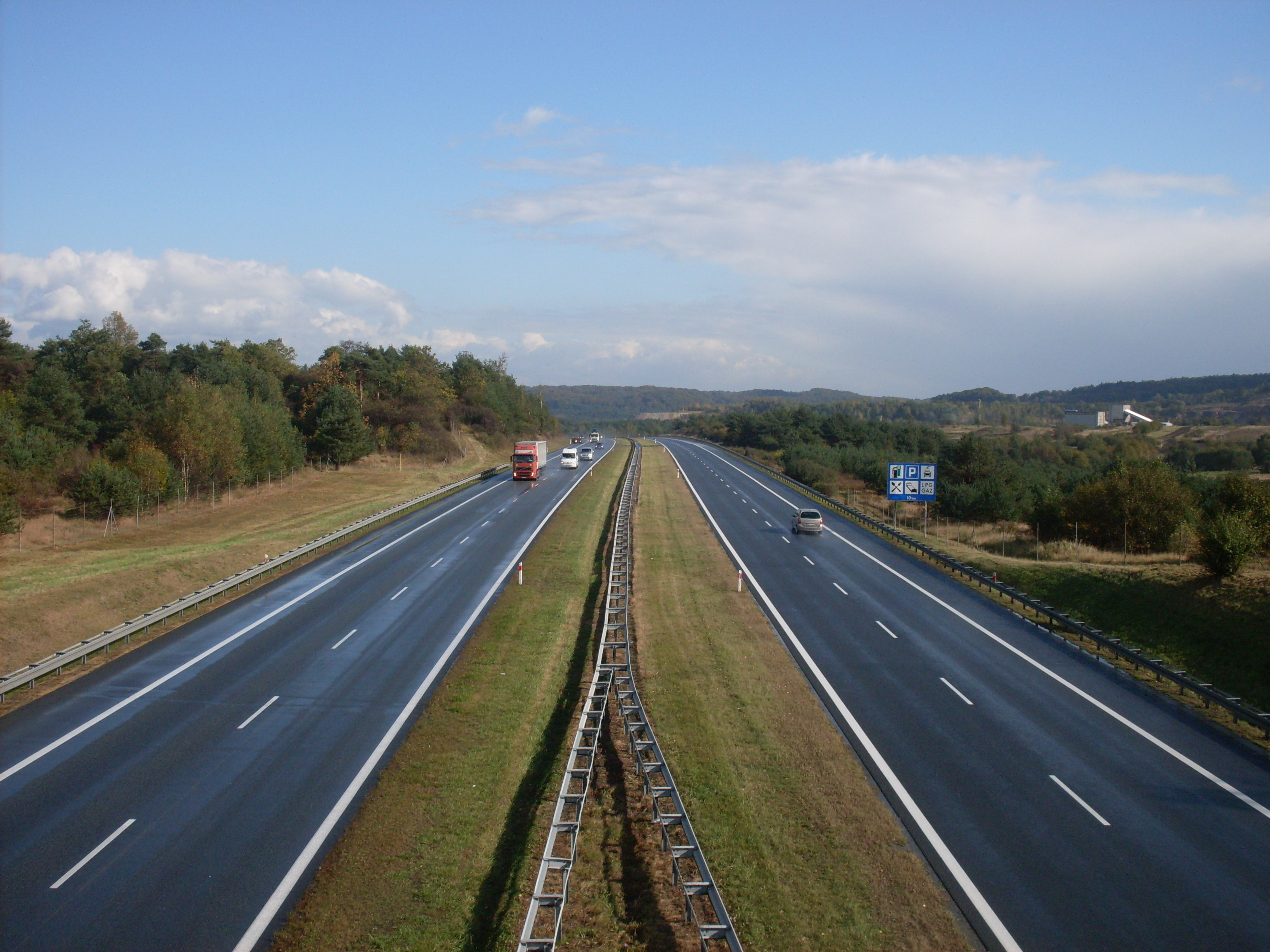 Freeway A4 (Zalas, Poland)